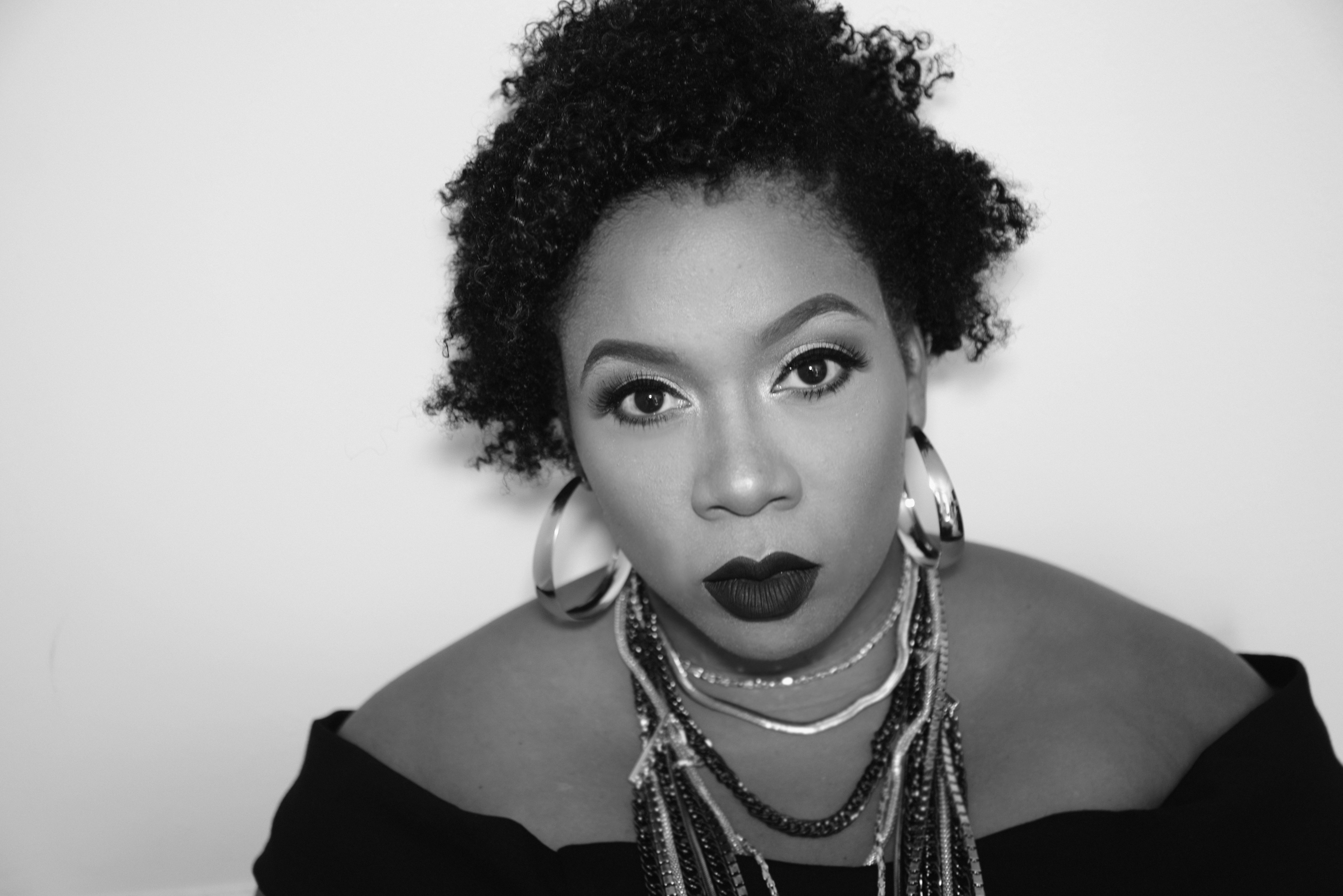 Crystal Monee Hall - Profile Photo